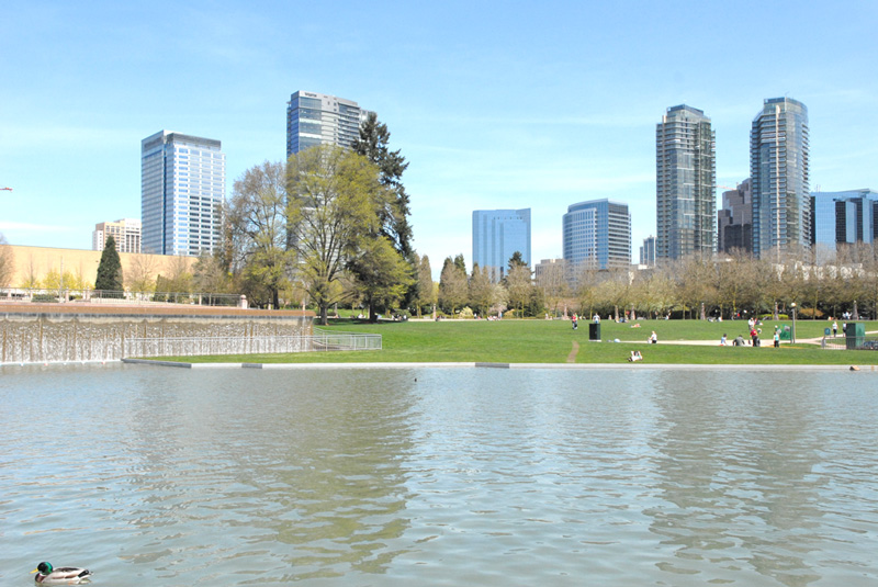 Image of Bellevue's Downtown Park, looking northeast.